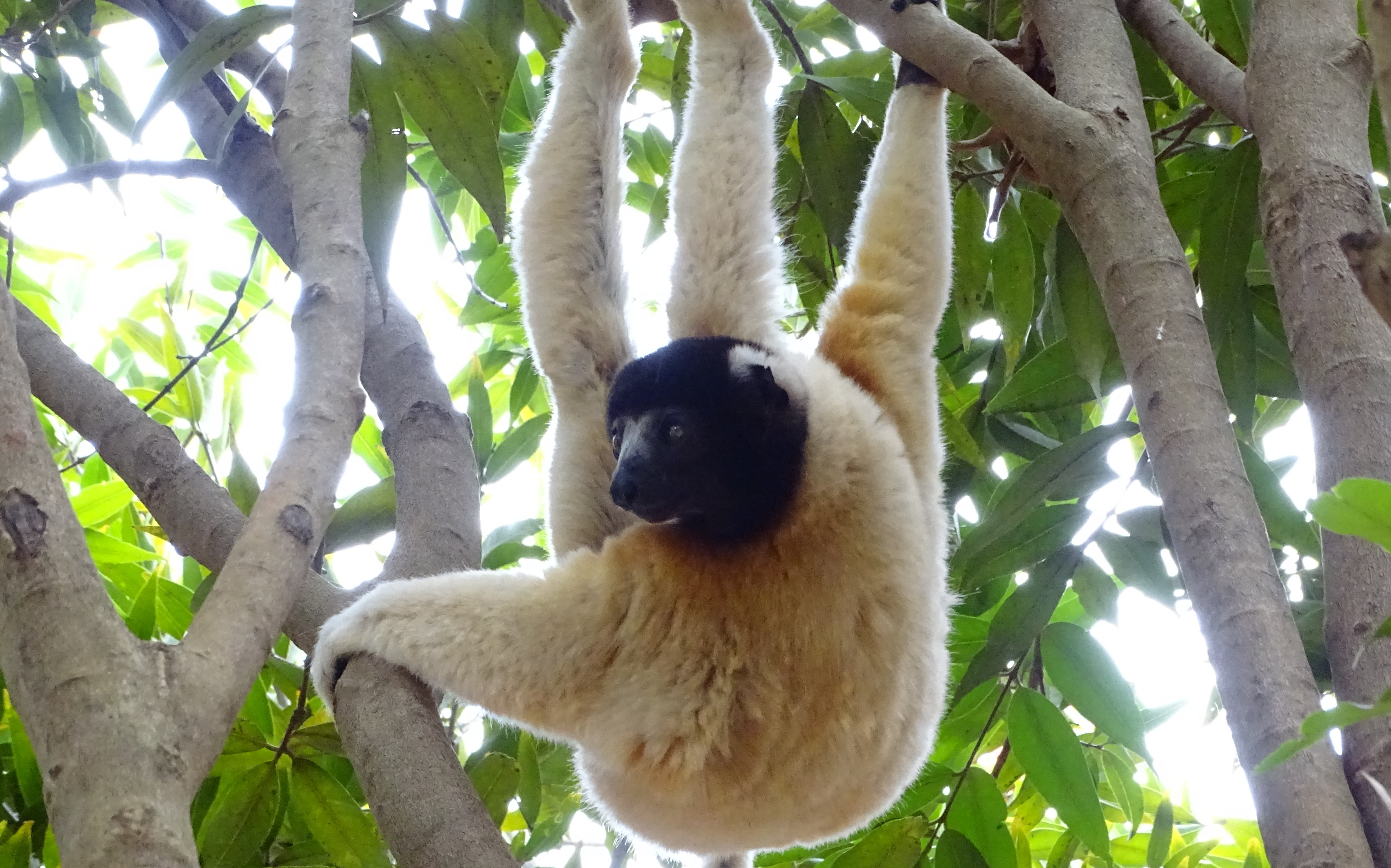 Crowned Sifaka at Lemurs' Park